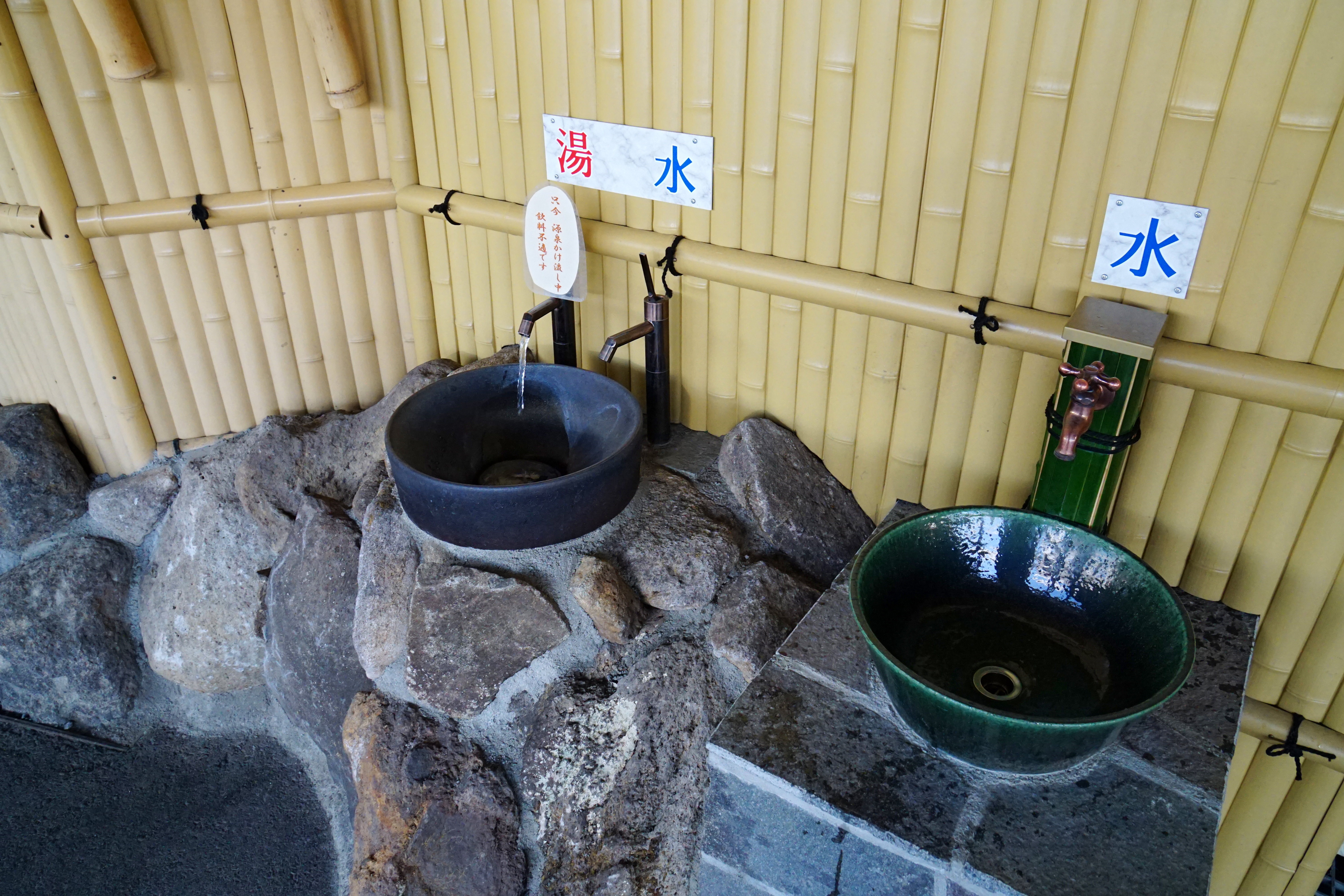 Kami-Suwa Station in Suwa, Nagano prefecture, Japan